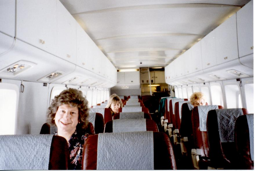 Short SD360 cabin interior